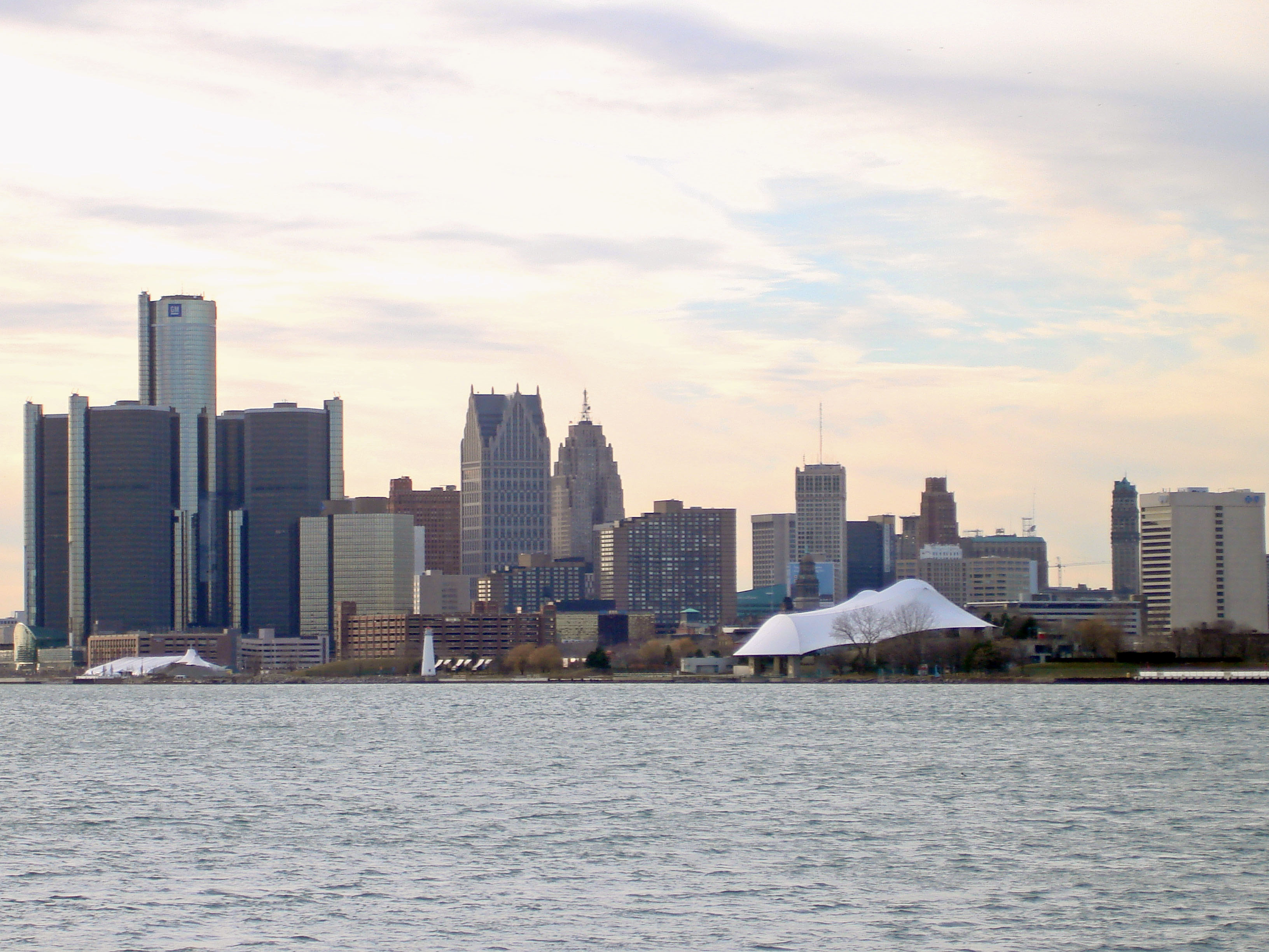 The William G. Milliken State Park and Harbor of the Detroit International Riverfront. Seen from Belle Isle Park.